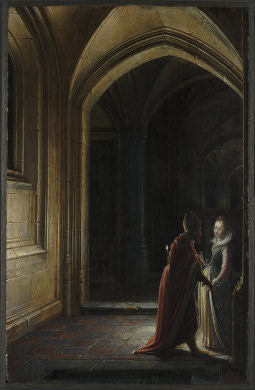 Esther and Mordecai